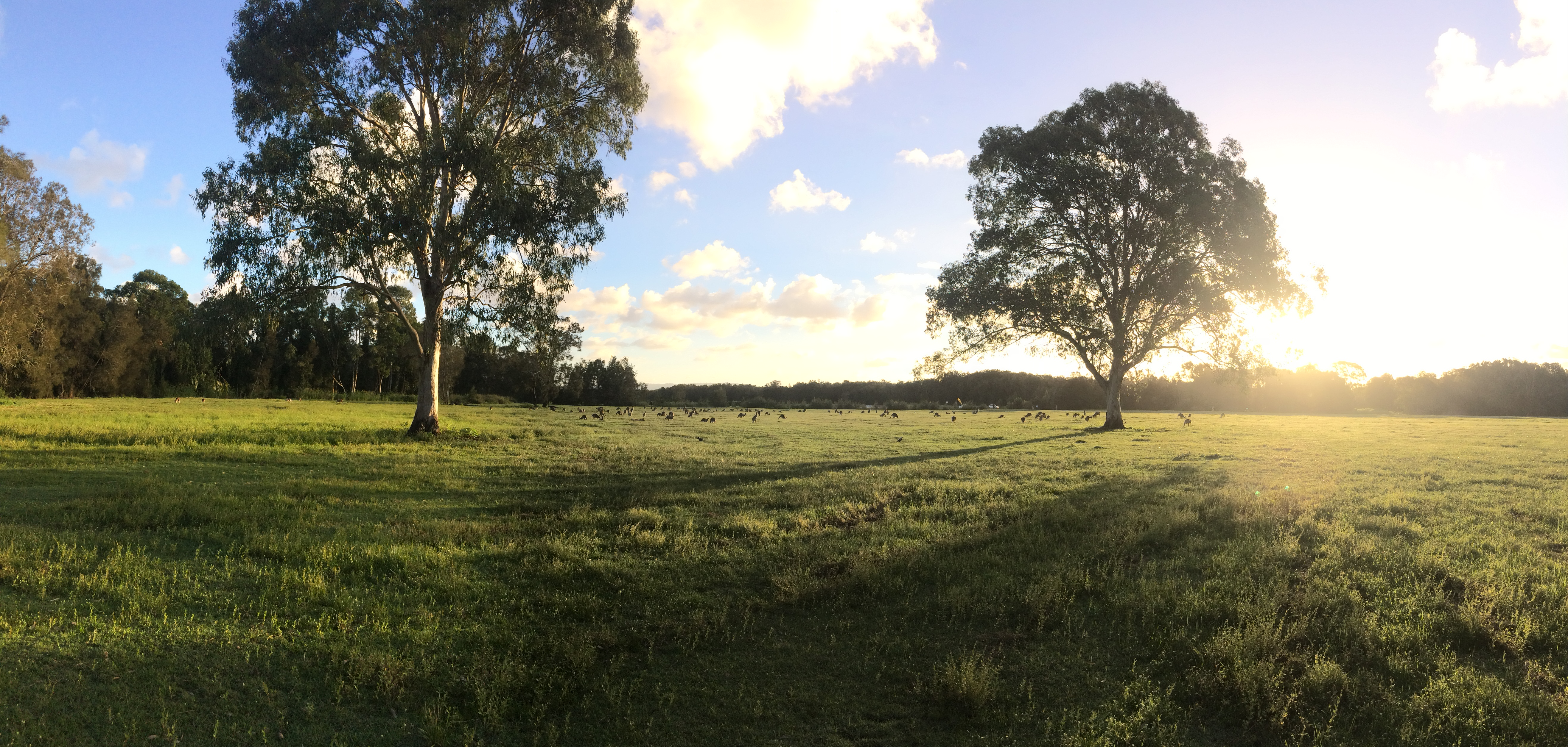 The sun setting in Coombabah Lake Conservation Park with kangaroos in the backdrop.